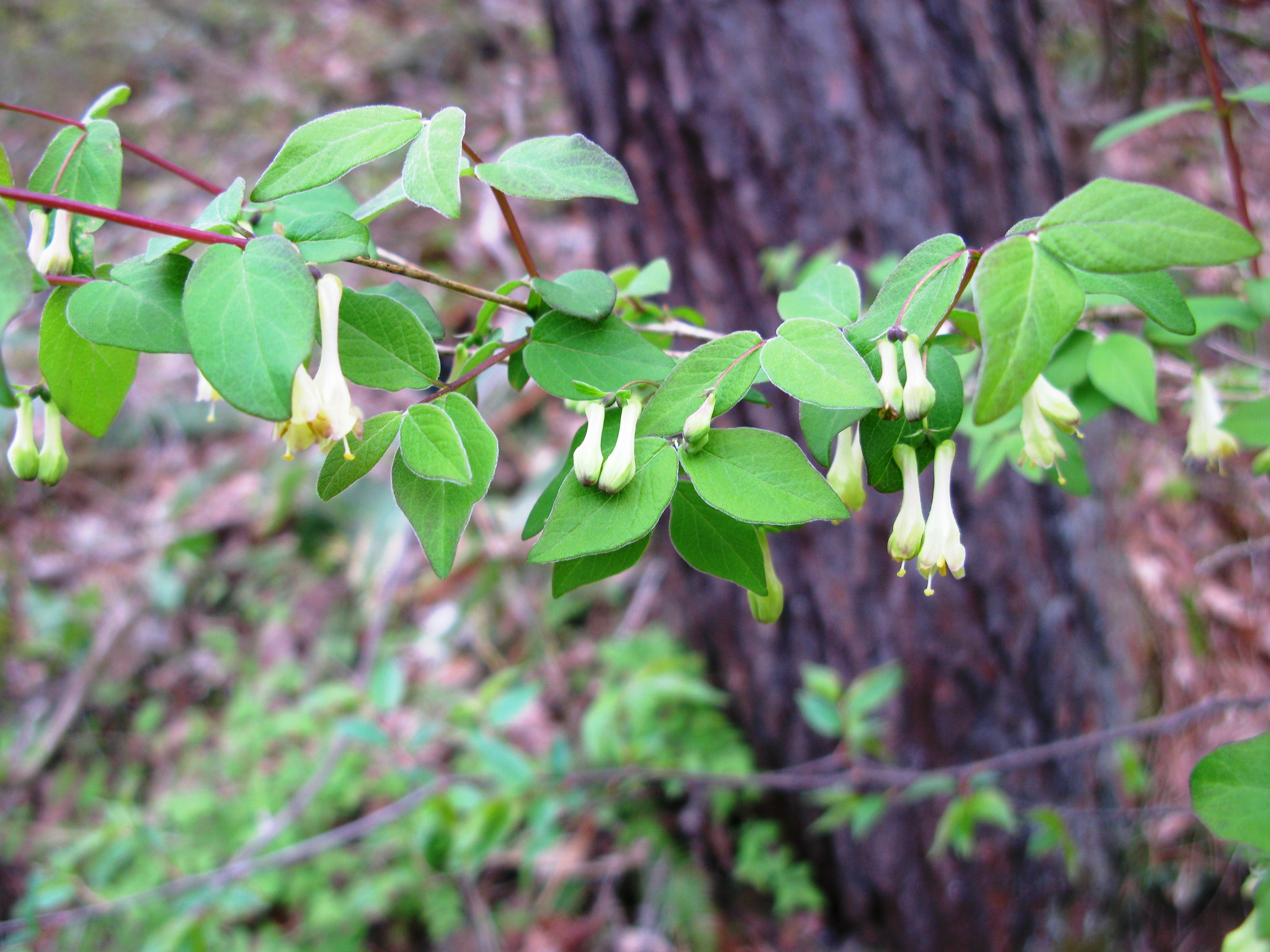 Lonicera ramosissima, Aizu area, Fukushima pref., Japan